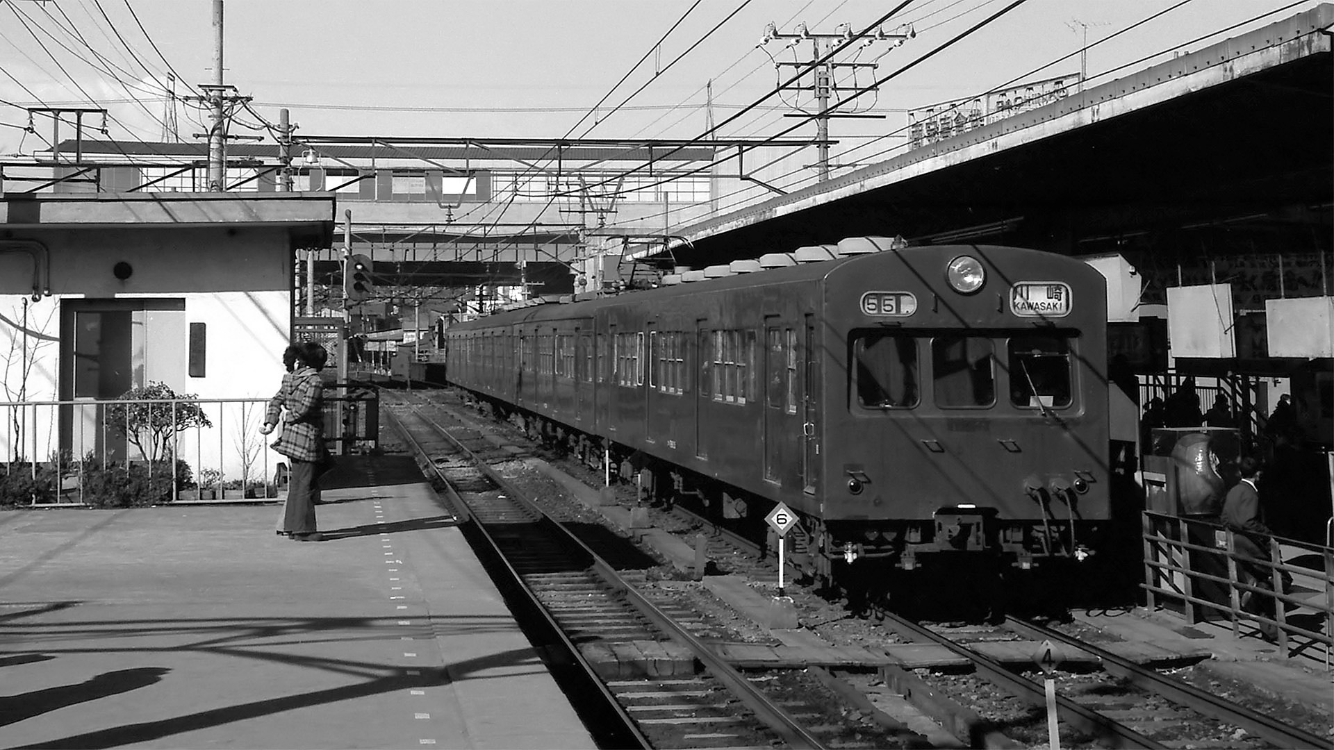 A JNR 73 series EMU on a Nambu Line service at Musashi-Mizonokuchi Station